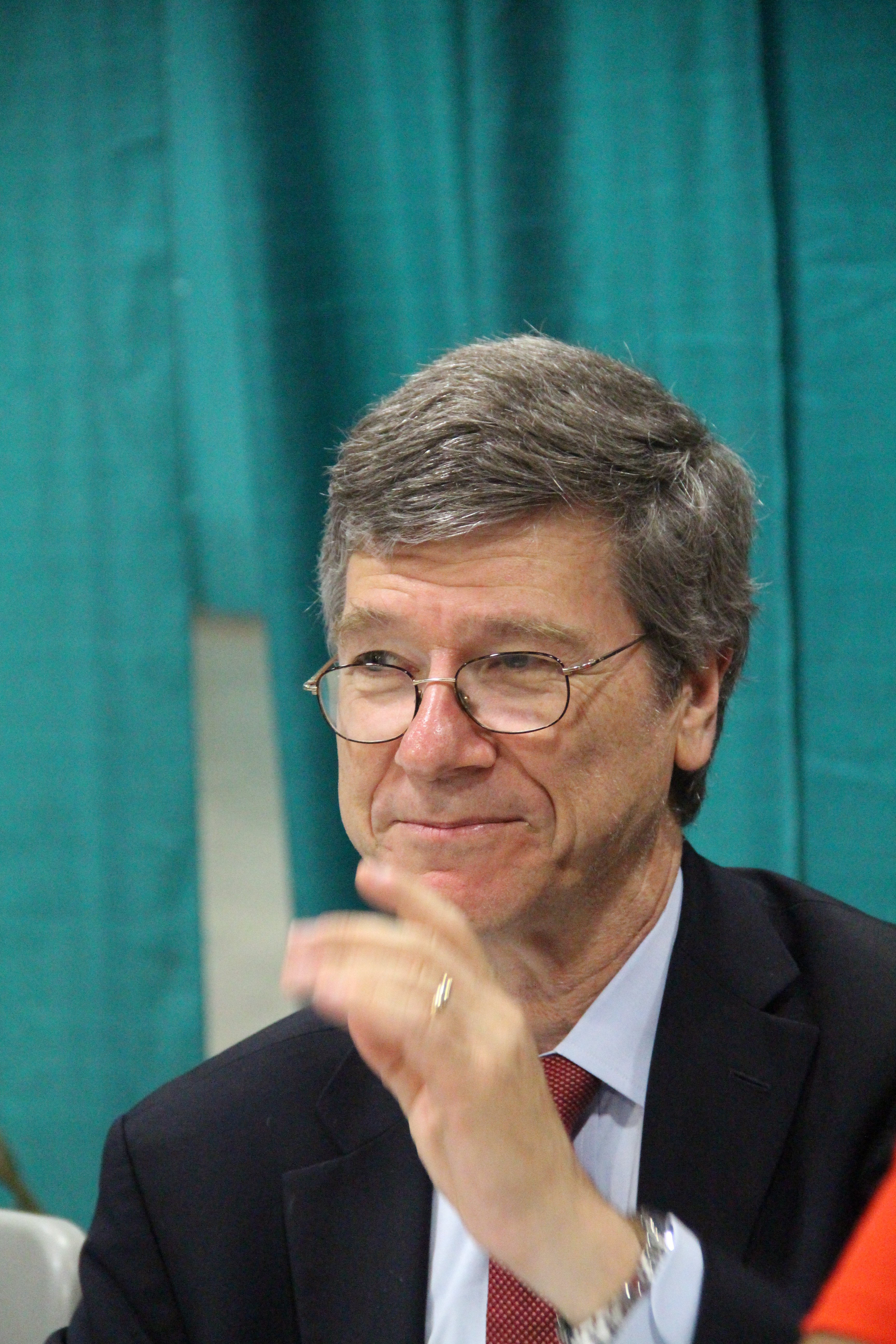 2015 Library of Congress National Book Festival September 5, 2015 Washington, DC